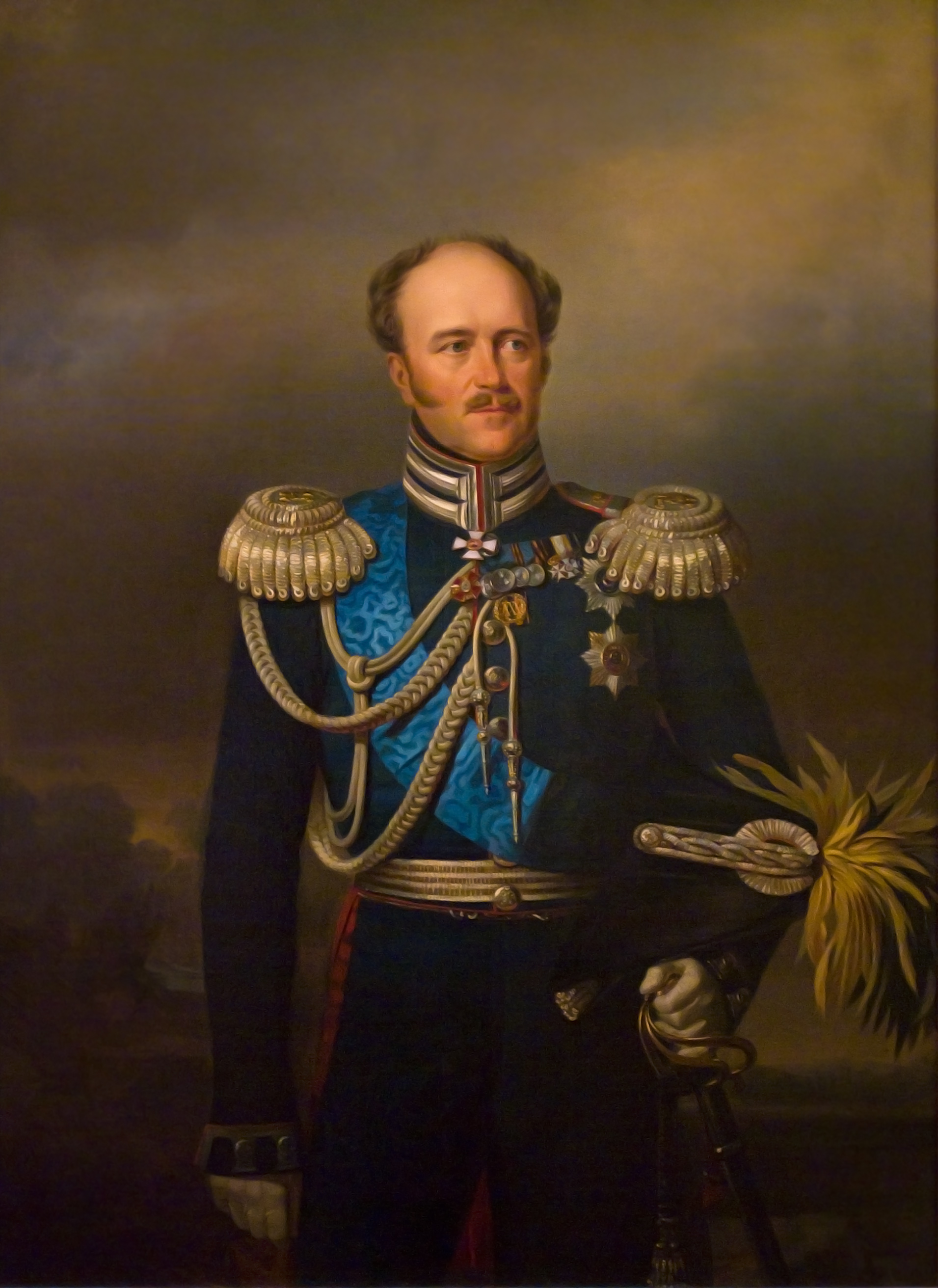 Egor Botman (†1891), after F. Krüger. Portrait of Alexander von Benckendorff in uniform of L-G Gendarme Squadron